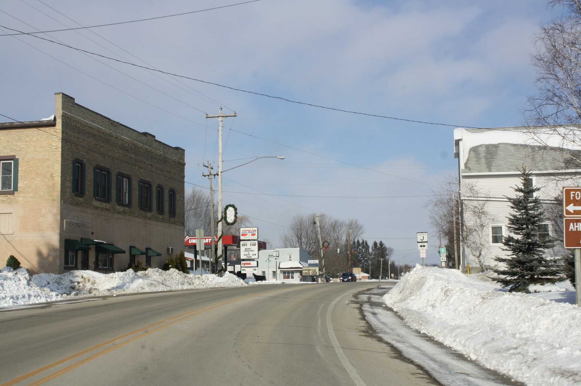 Looking north at downtown Forestville, Wisconsin on Wisconsin Highway 42.